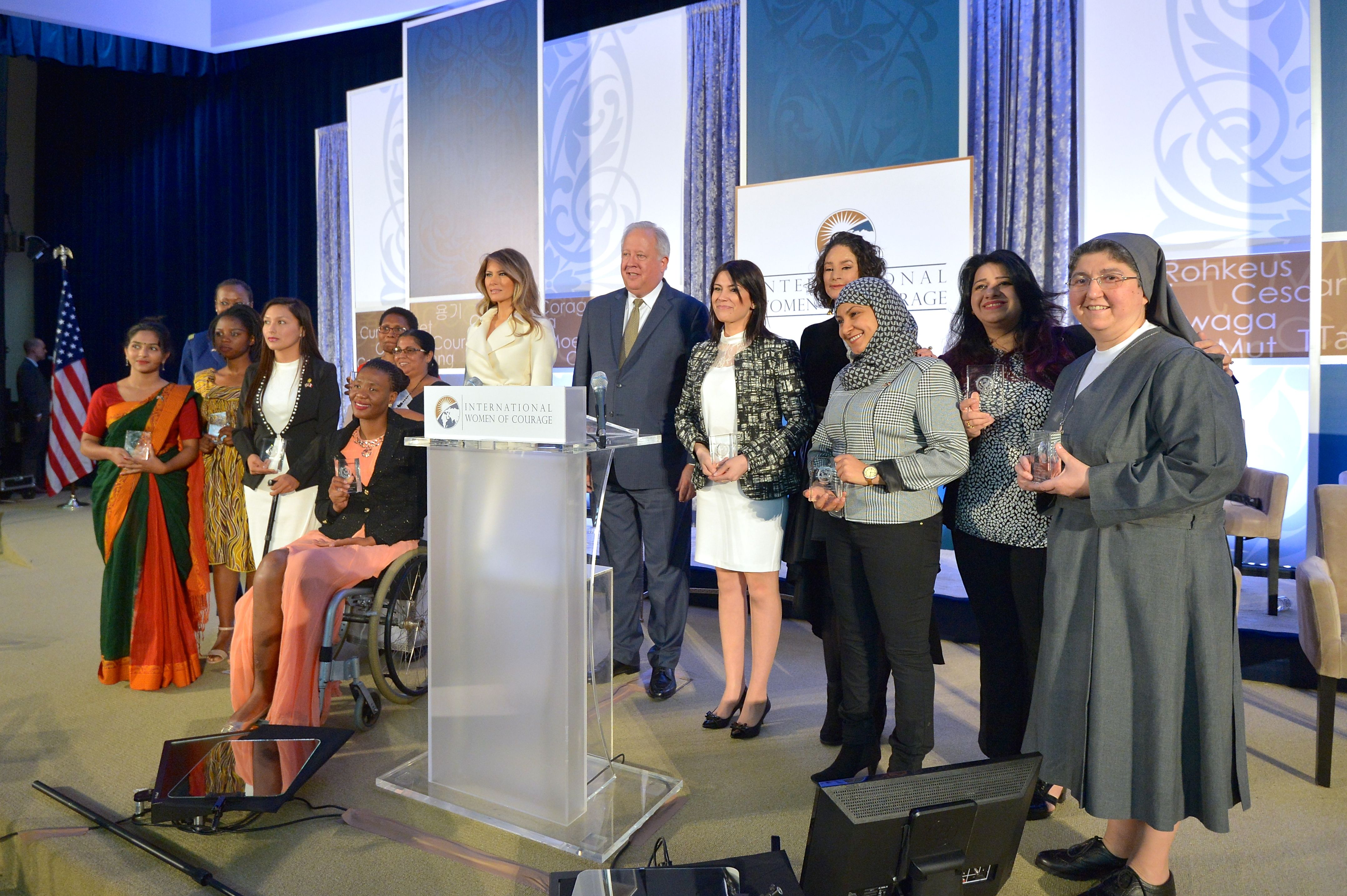 First Lady Melania Trump and Under Secretary of State for Political Affairs Thomas A. Shannon pose for a photo with the 2017 Secretary of State’s International Women of Courage Awardees during a ceremony at the U.S. Department of State in Washington, D.C., on March 29, 2017. The 2017 awardees are Sharmin Akter, Activist Against Early/ Forced Marriage, Bangladesh; Malebogo Molefhe, Human Rights Activist, Botswana; Natalia Ponce de Leon, President, Natalia Ponce de Leon Foundation, Colombia; Rebecca Kabugho, Political and Social Activist, Democratic Republic of Congo; Jannat Al Ghezi, Deputy Director of The Organization of Women’s Freedom in Iraq, Iraq; Major Aichatou Ousmane Issaka, Deputy Director of Social Work at the Military Hospital of Niamey, Niger; Veronica Simogun, Director and Founder, Family for Change Association, Papua New Guinea; Cindy Arlette Contreras Bautista, Lawyer and Founder of Not One Woman Less, Peru; Sandya Eknaligoda, Human Rights Activist, Sri Lanka; Sister Carolin Tahhan Fachakh, Member, Daughters of Mary Help of Christians (F.M.A.), Syria; Saadet Ozkan, Educator and Gender Activist, Turkey; Nguyen Ngoc Nhu Quynh, Blogger and Environmental Activist, Vietnam; and Fadia Najib Thabet, Human Rights Activist, Yemen. [State Department photo/ Public Domain]